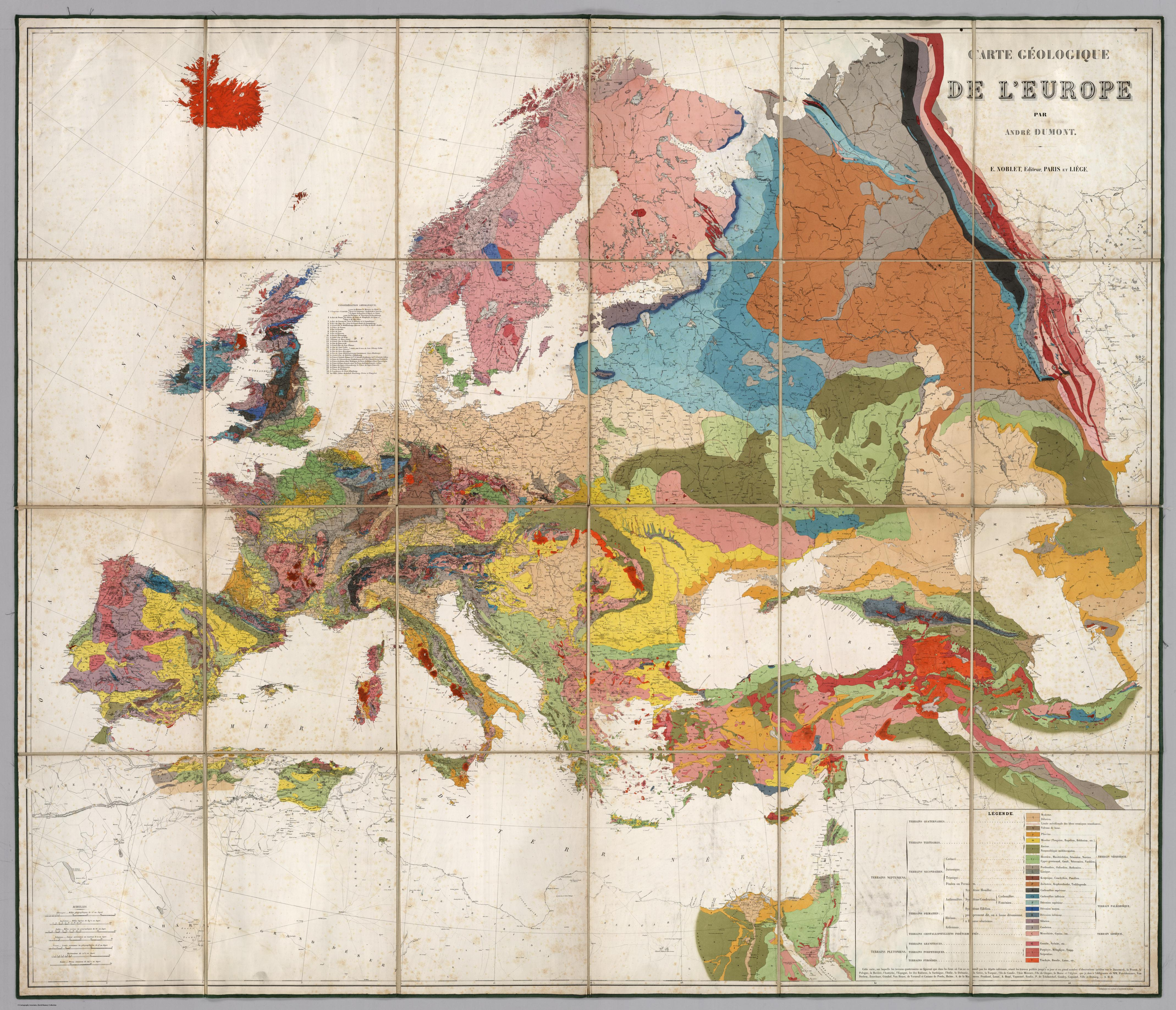 Geological map of Europe - Carte Geologique De L'Europe. author: Dumont, Andre, published in 1875. Publisher : E. Noblet Publisher Location : Paris Type : Case Map Size 125x146 cm; Scale: 3,800,000 Bookplate of Jules Marcou. Printed in full color. Map is dissected into 24 sections, edged in green cloth and mounted on linen. Folds into a new blue cloth folding case 33x26 with "Carte Geologique De L'Europe Andre Dumont 1875" stamped in gold on the spine. Carte Geologique De L'Europe Par Andre Dumont. E. Noblet, Editeur, Paris Et Liege. Lithographie en coulears a l'Impremere Imperiale.